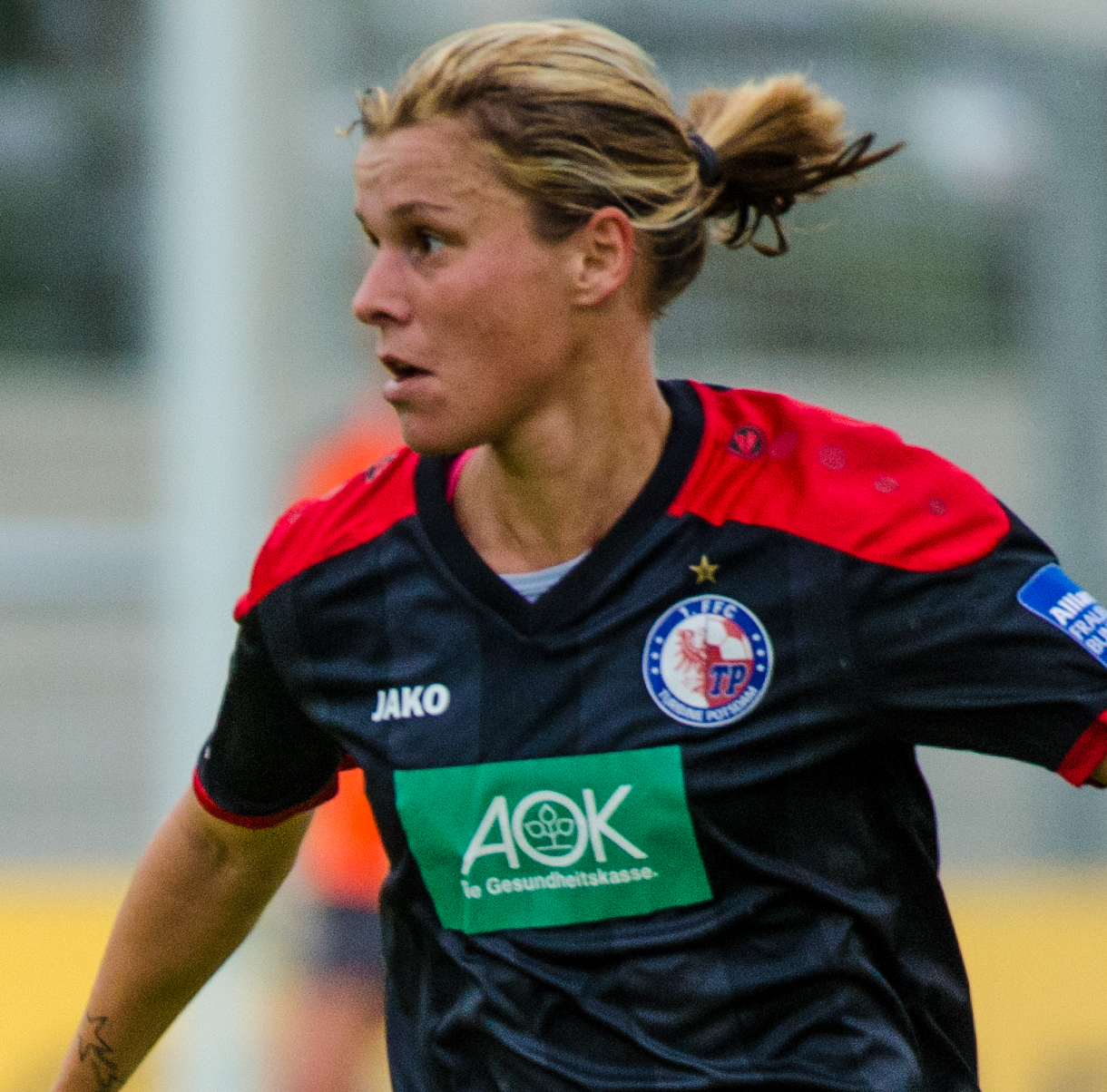 Match of the German Women's Football Bundesliga between 1.FFC Frankfurt and 1. FFC Turbine Potsdam, 2015-09-13